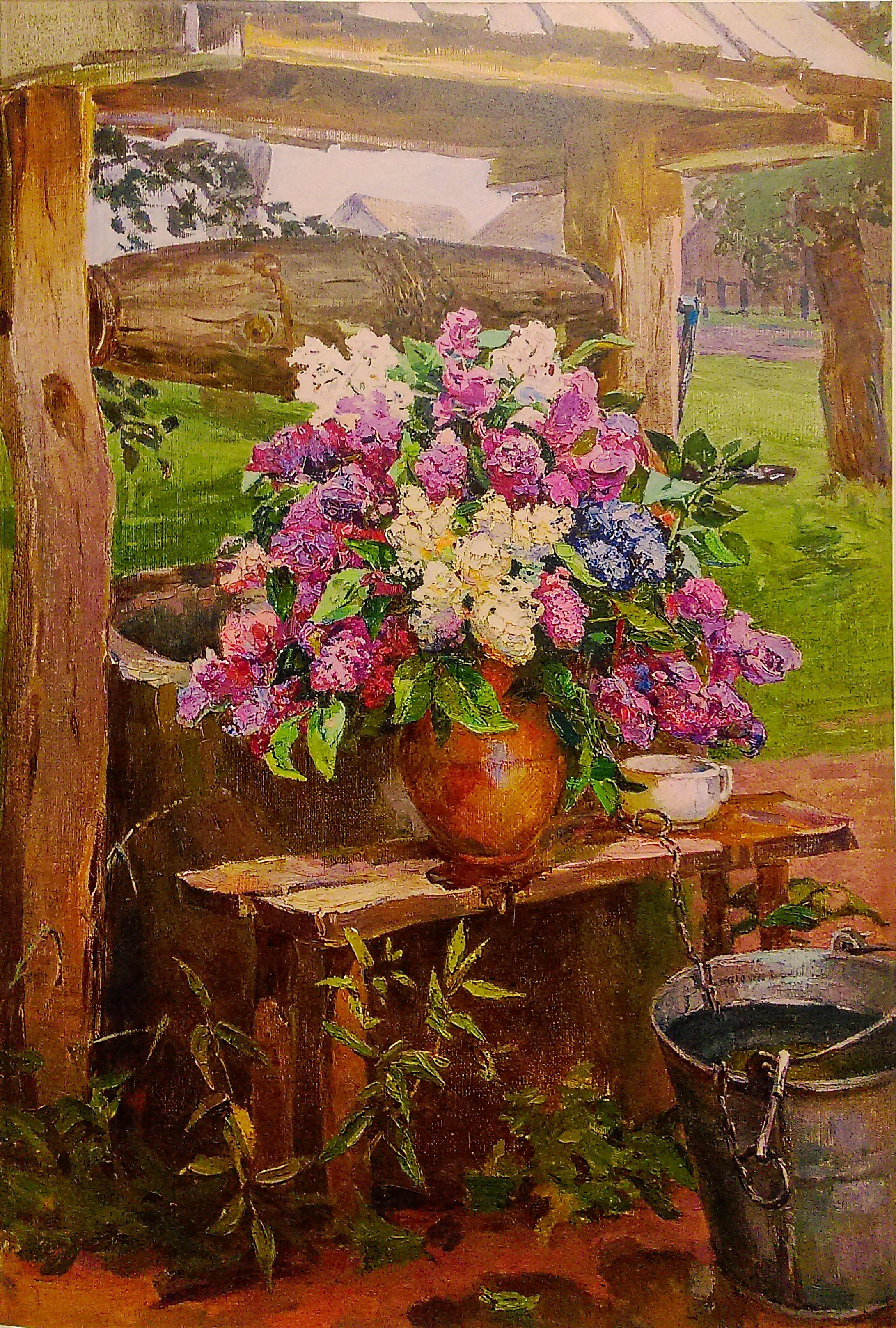 Belarusian artist Boris Arakcheev. "Lilac at the well", 1956. Oil on canvas, 100 x 68 cm